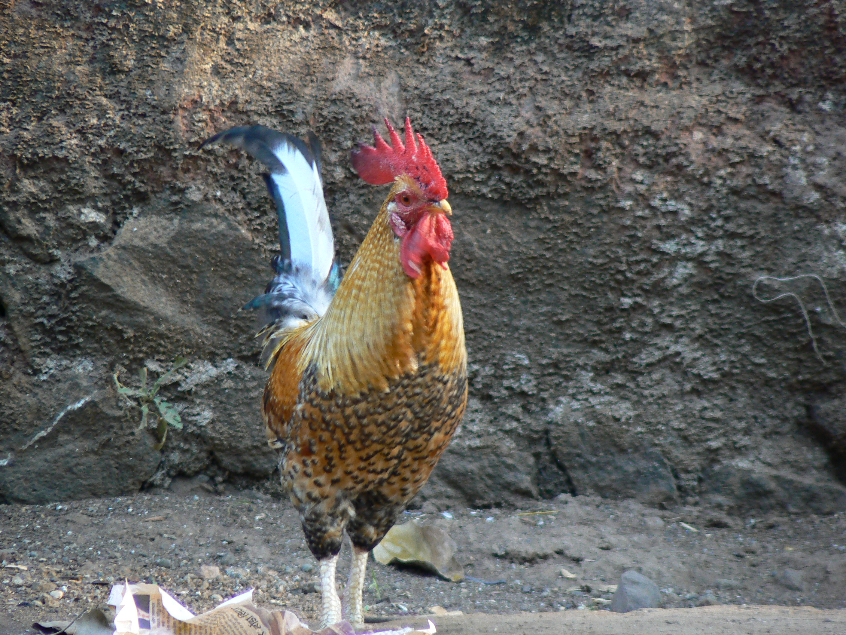 Common name: Chicken, Cock, Rooster, Murga मुर्गा (Hindi), Kombda कोंबडा (Marathi), Kunkad कुंकड (Konkani) Scientific name: Gallus gallus domesticus Family: Phasianidae A chicken (Gallus gallus domesticus) is a type of domesticated bird which is often raised as a type of poultry. It is believed to be descended from the wild Indian and south-east Asian Red Junglefowl. With a population of more than 24 billion in 2003 (according to the Firefly Encyclopedia of Birds), there are more chickens in the world than any other bird. They provide two sources of food frequently consumed by humans: their meat, also known as chicken, and eggs. Chickens have a fleshy crest on their heads called a comb, and a fleshy piece of hanging skin under their beak called a wattle. These organs help to cool the bird by redirecting blood flow to the skin. Both the male and female have distinctive wattles and combs. In males, the combs are often more prominent, though this is not the case in all varieties. Courtesy: - From Wikipedia, the free encyclopedia - EcoPort Note: Information has not been verified and may not be reliable; please check for any inaccuracy.